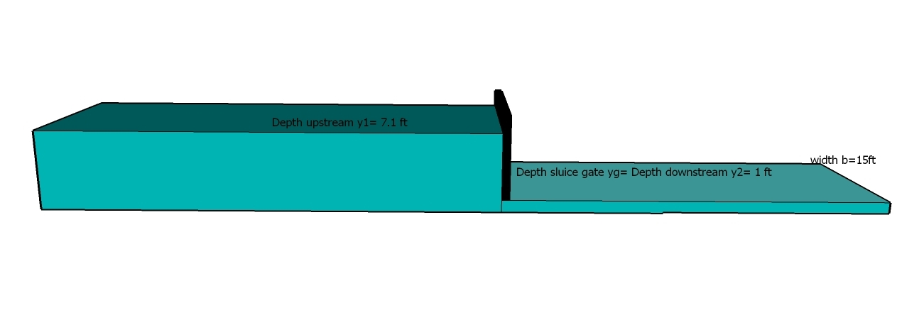 Sluice gate with the gate opening set as 1 ft